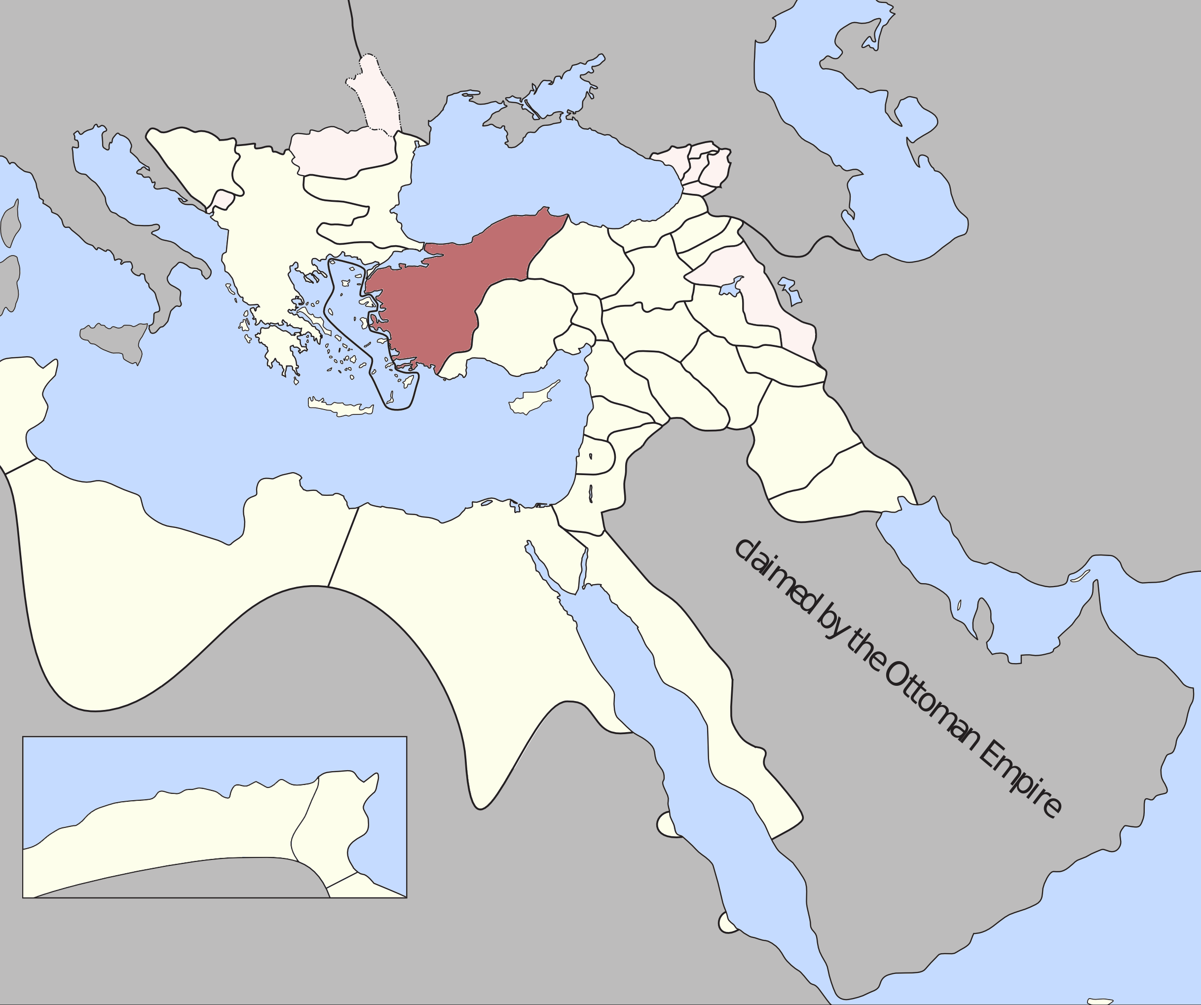 XY Eyalet, Ottoman Empire (1795). Source: A Brief History of the Late Ottoman Empire at Google Books By M. Sukru Hanioglu, Figure 1